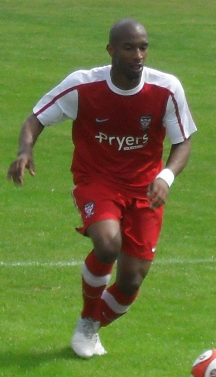 Duane Courtney playing for York City against North Ferriby United at Grange Lane, North Ferriby on 7 August 2010